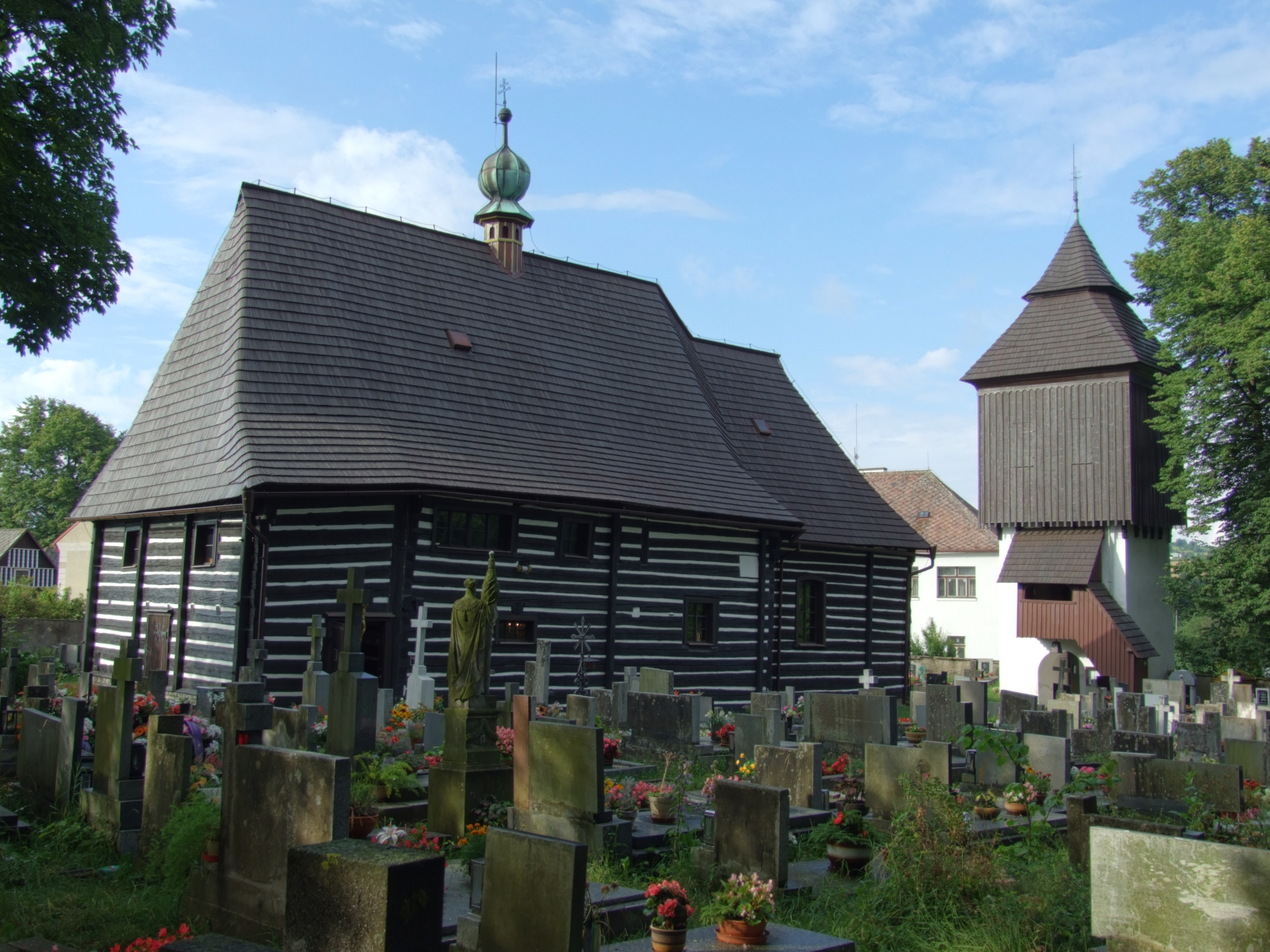 Wooden church of St. John the Baptist, Slavoňov, Czech Republic. Built in 1553.